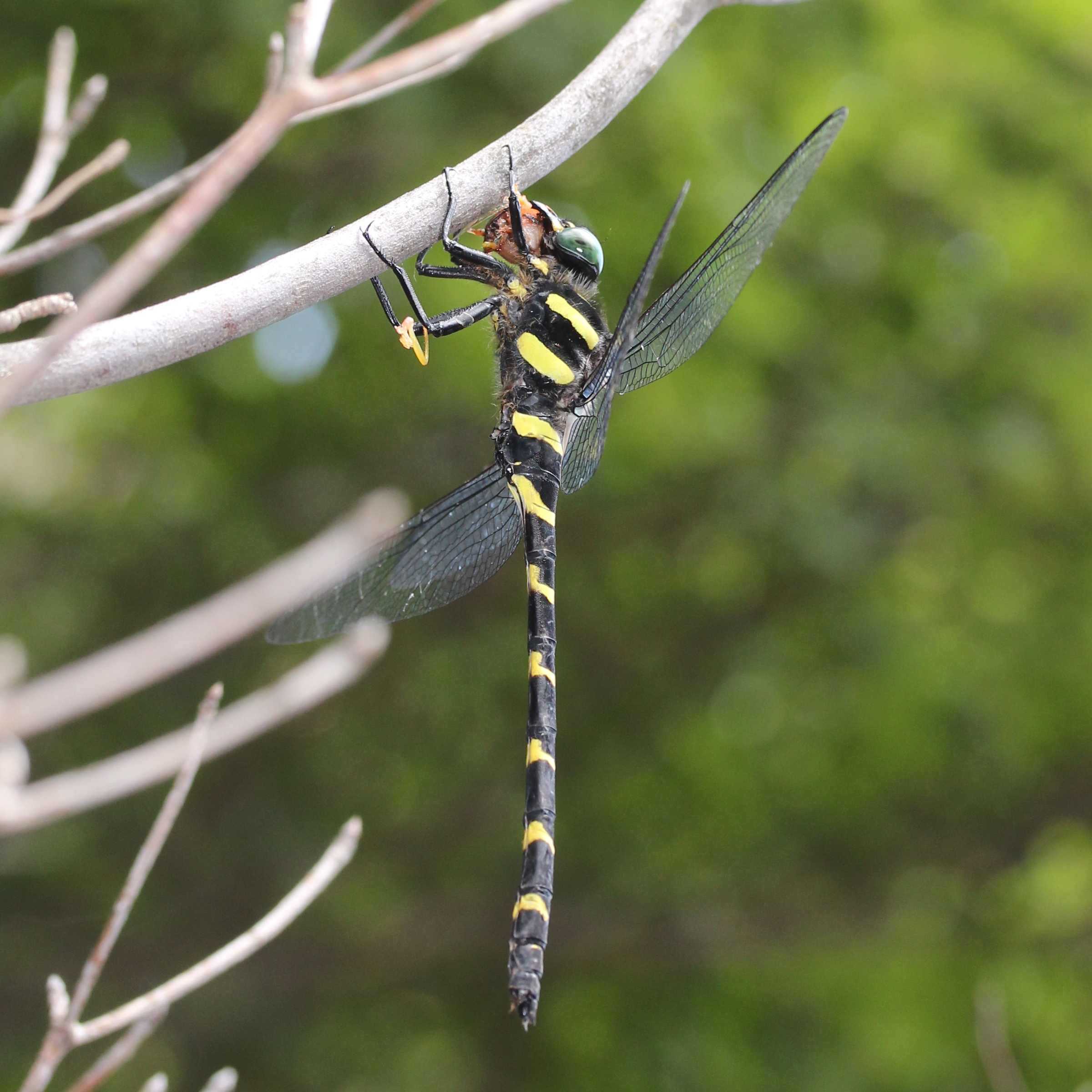 Golden-ringed dragonfly (Anotogaster sieboldii), male in Mount Gozaisho, Komono, Mie prefecture, Japan.